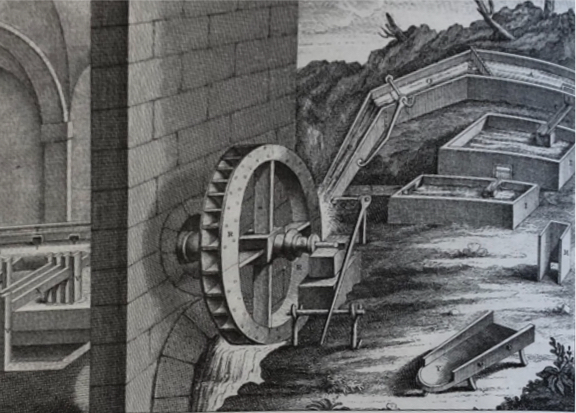 The paper mill located at the Grand'Rive in Auvergne (canal, wheel, reposoirs, mallets).